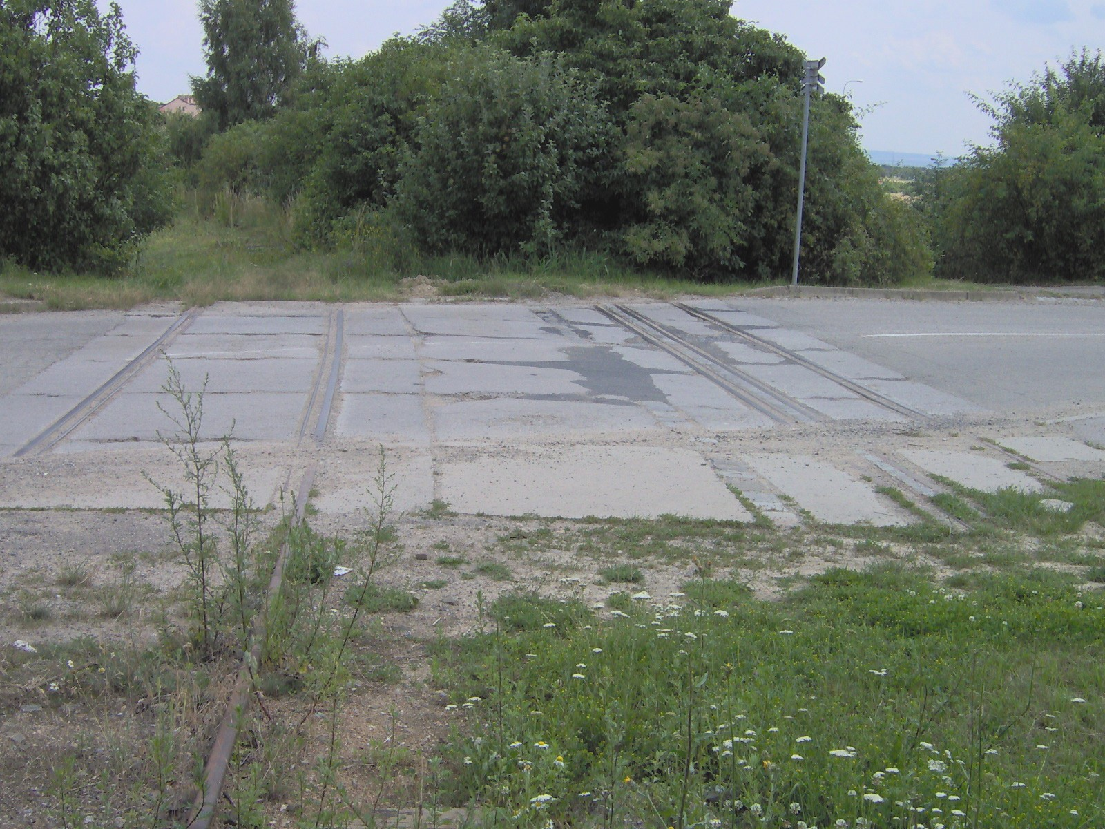 Former tram track Černovice - Líšeň in Brno